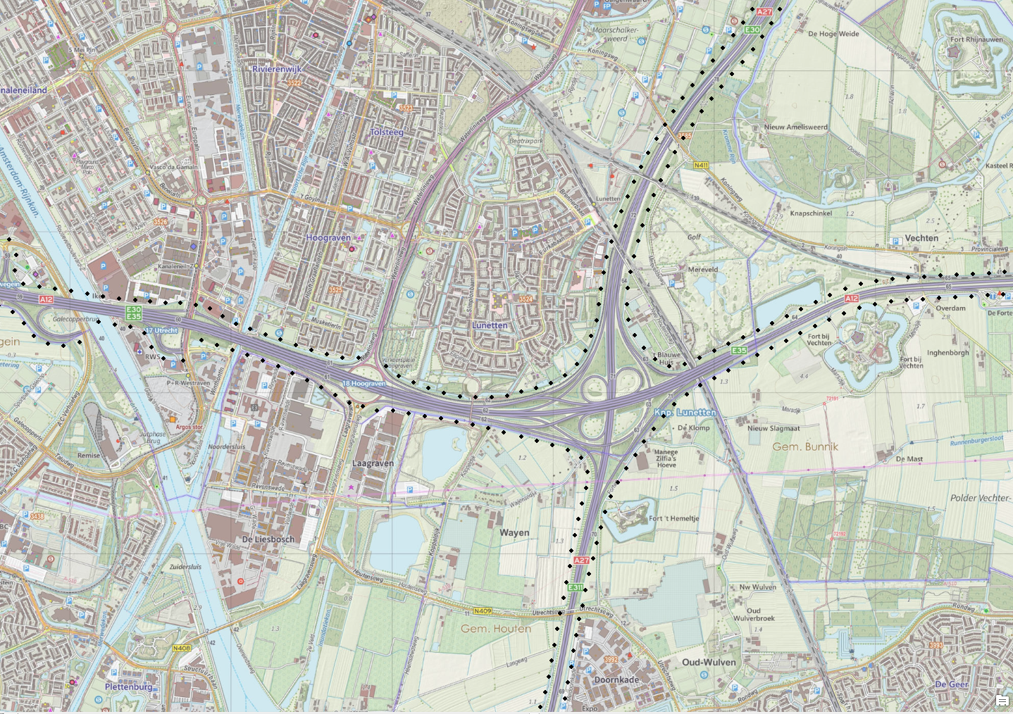 Noise ceilings example